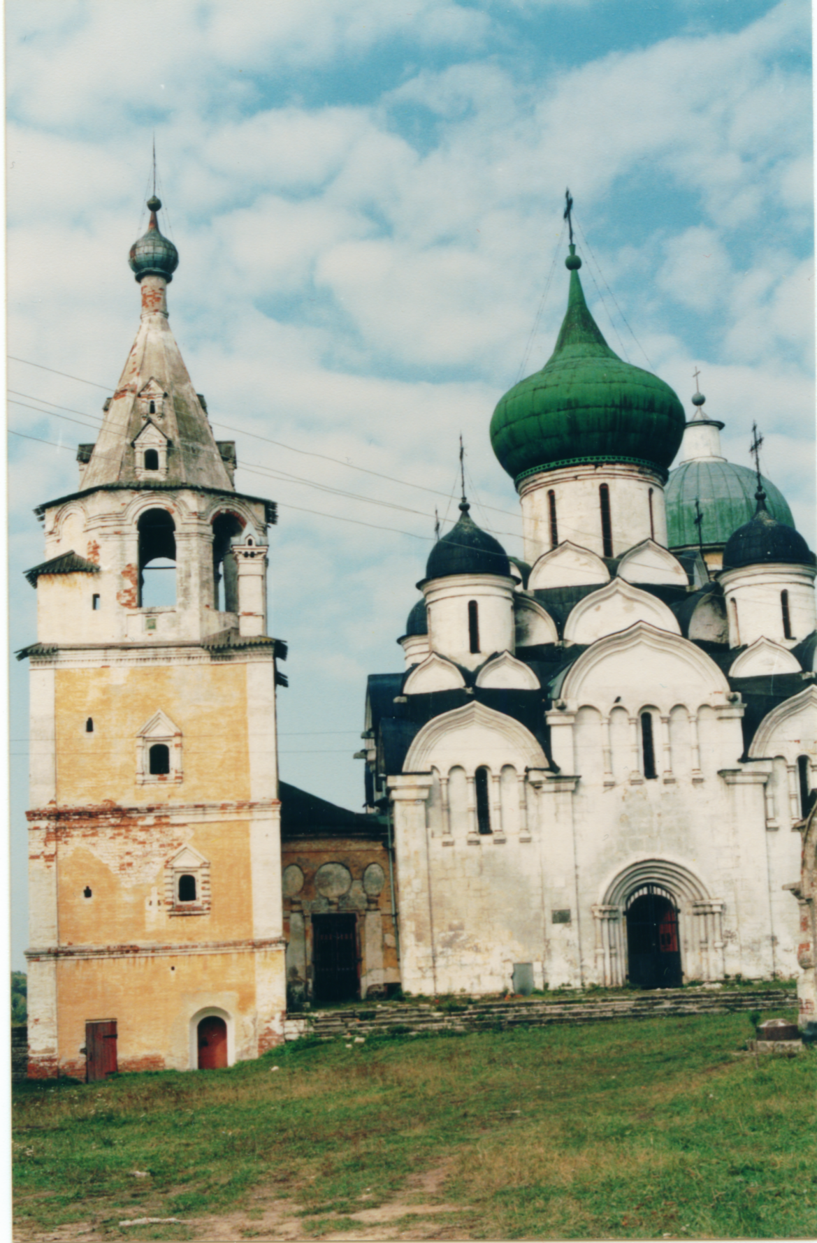 On a photo the Staritsky monastery which is near Tver